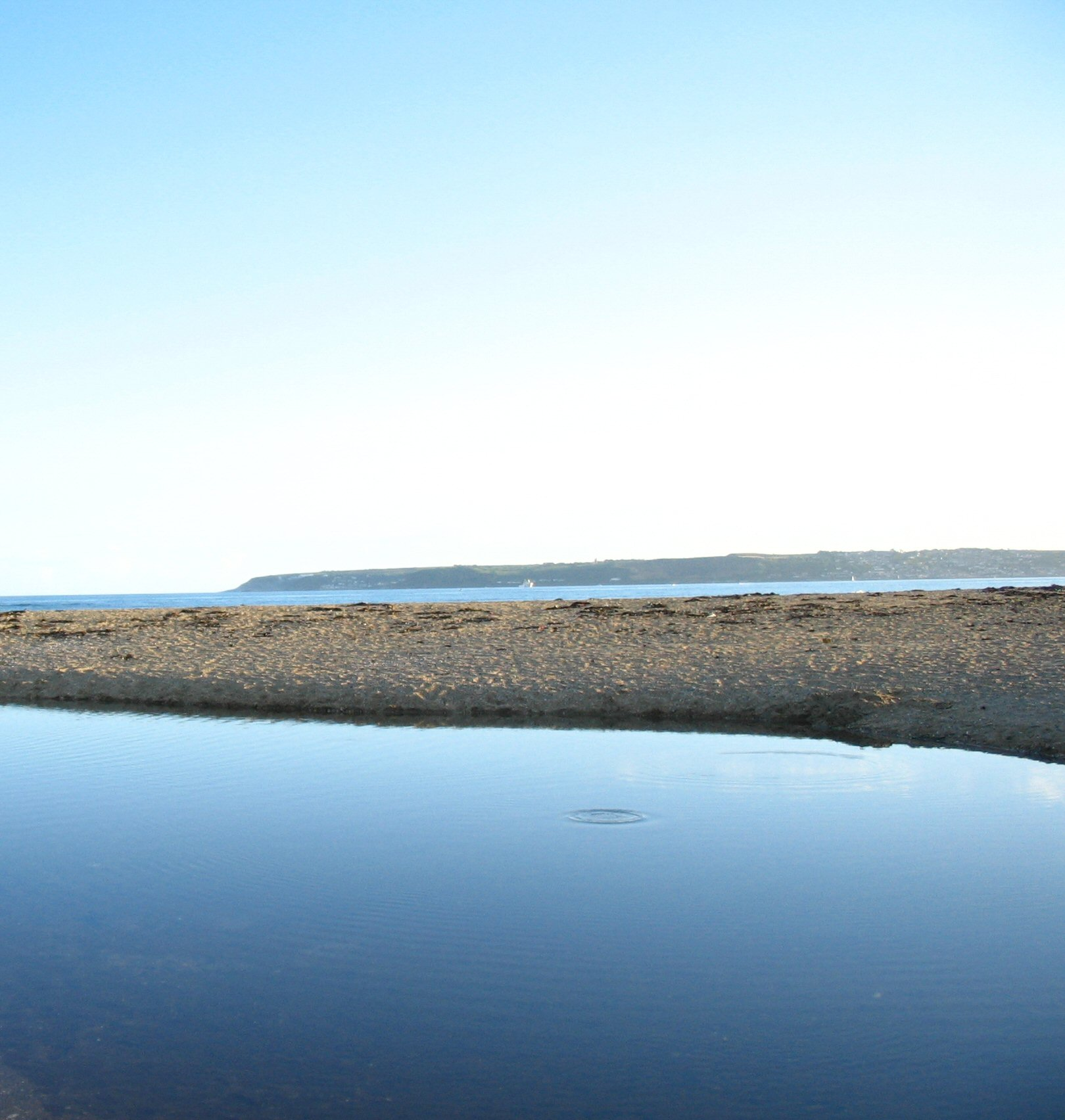 Mount's Bay by Paul Betowski